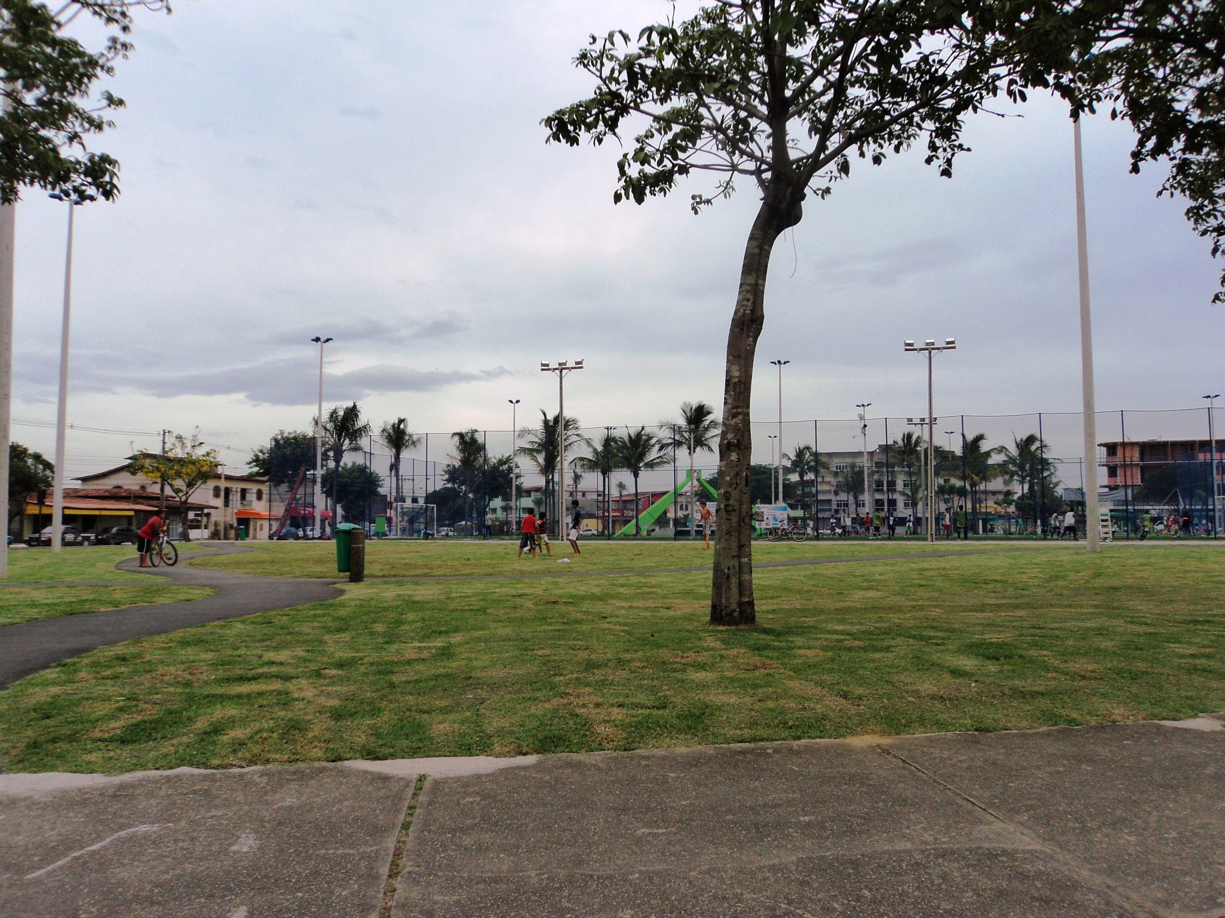 Municipal Square of the Araçás Neighborhood, in Vila Velha, Espírito Santo, Brazil.